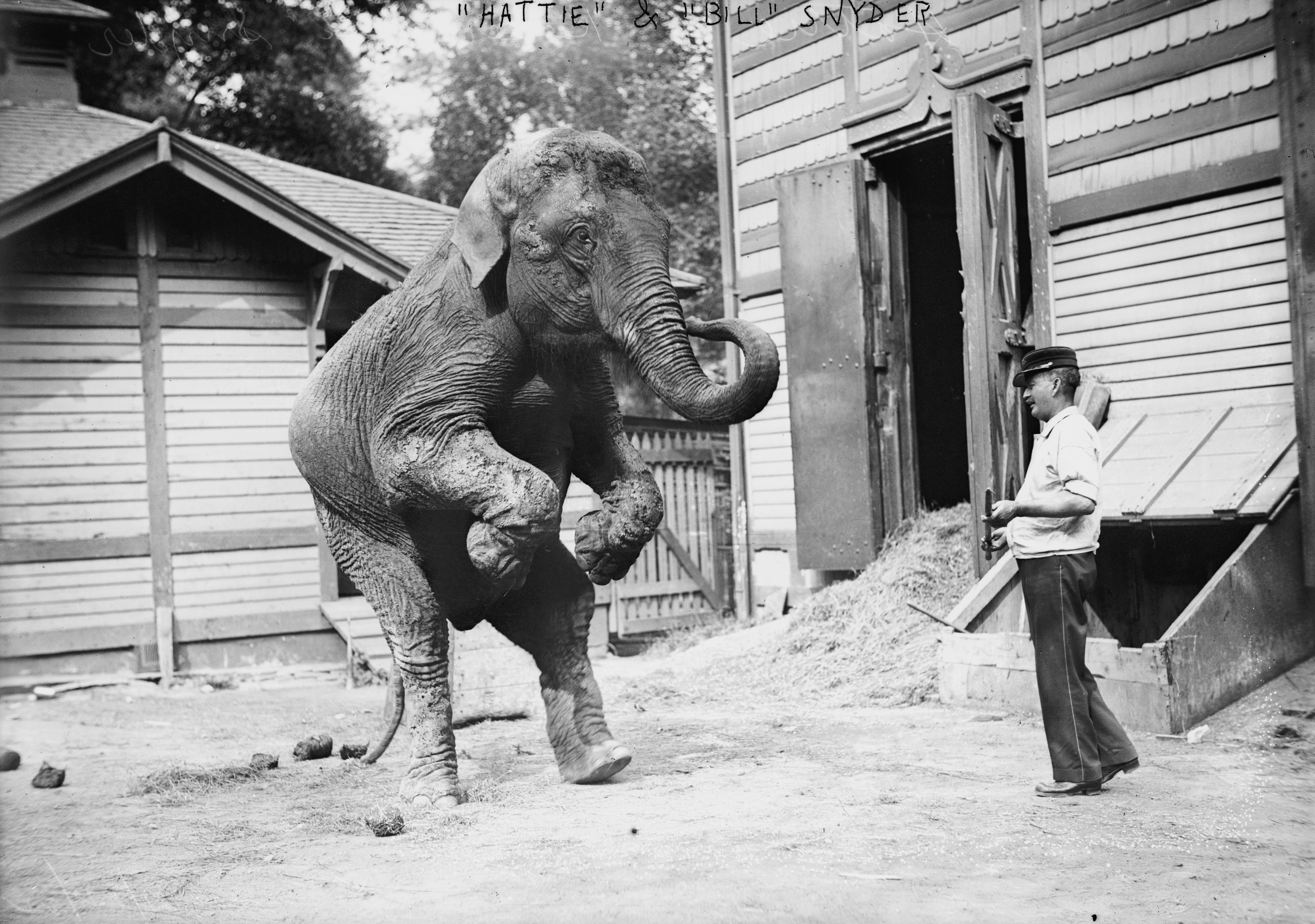 Bain News Service,, publisher.1 negative : glass ; 5 x 7 in. or smaller.Notes: Title from unverified data provided by the Bain News Service on the negatives or caption cards.Forms part of: George Grantham Bain Collection (Library of Congress).Format: Glass negatives. Repository: Library of Congress, Prints and Photographs Division, Washington, D.C. 20540 USA, General information about the Bain Collection is available at URL: Number: LC-B2- 2753-14